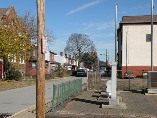 Picture of the Pennsalt Historic District in Natrona, Harrison Township, Allegheny County, Pennsylvania. This picture was taken at the corner of Wood Street and Philadelphia Avenue, and the view is of Wood Street. There are some monuments on the corner, the building on the right was originally the Natrona High School; it later became Wood Street Elementary School, and is now apartments. The building on the left was formerly the Natrona United Methodist (Episcopal) Church, built in 1913. Also, one can see some former company houses on the left. Some houses are older than others, and the ones on Center Street looked particularly old. This area was originally built as a company town by the Pennsylvania Salt Manufacturing Company in the 1850s, and is listed on the National Register of Historic Places.